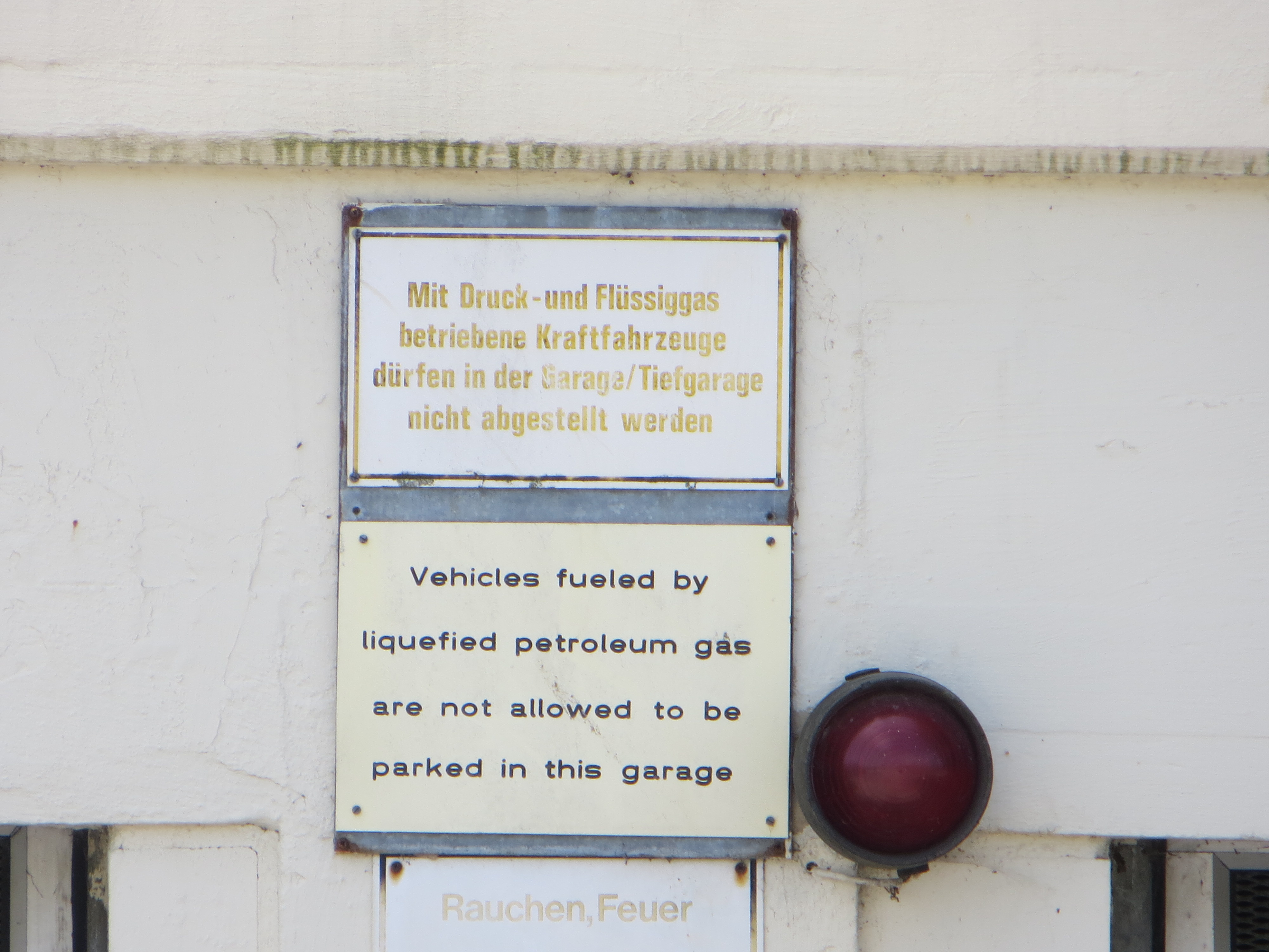 American warnsign for liquefied patroleum gas cars in Flensburg-Weiche, Germany